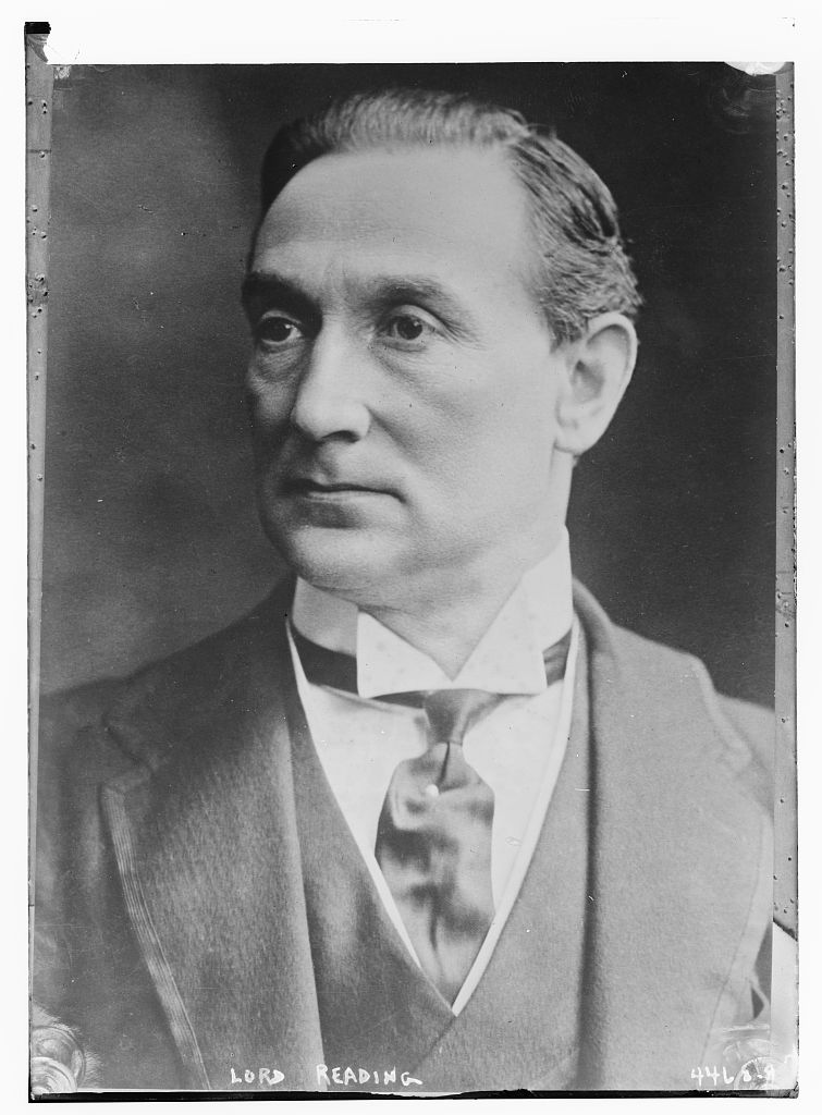 Rufus Isaacs, 1st Marquess of Reading in 1917